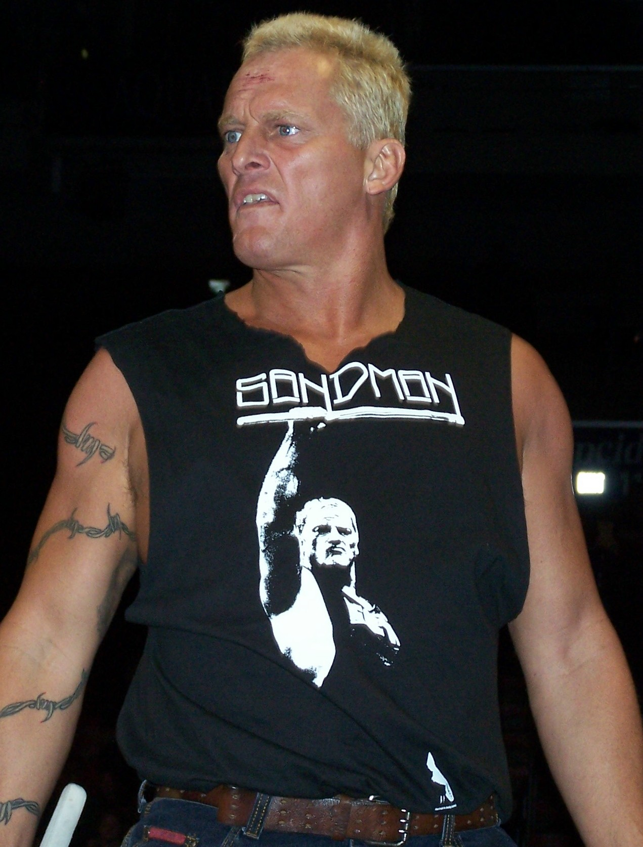 James "Jim" Fullington a.k.a. "The Sandman", taken by myself at an ECW brand event in July 2006.